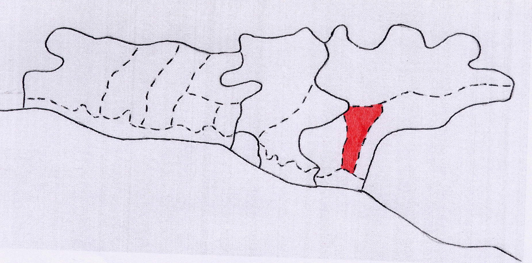 Moldovka rural okrug in Sochi City Unit, Krasnodar Krai, Russia.